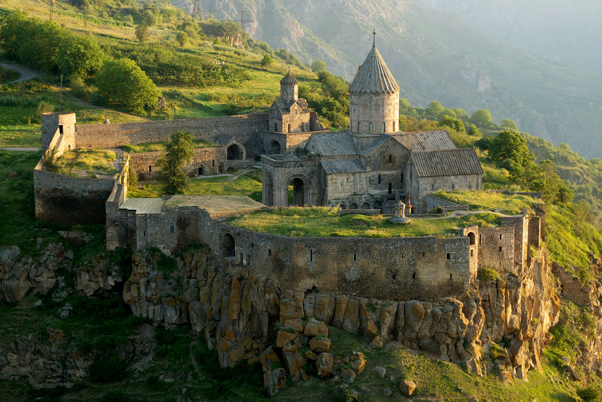 A view of the 9th century Armenian Monastery of Tatev in southern Armenia.